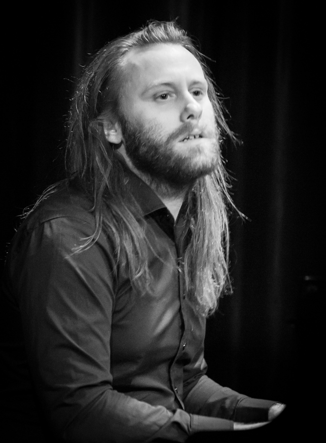 Andreas Ulvo performs with Mathias Eick at the stage of Nasjonal Jazzscene Victoria. The concert was part of the Oslo Jazz Festival in Norway and took place on 16. August 2016. Lineup: Mathias Eick (trumpet) Andreas Ulvo (piano) Håkon Aase (violin) Audun Erlien (bass) Torstein Lofthus (drums)